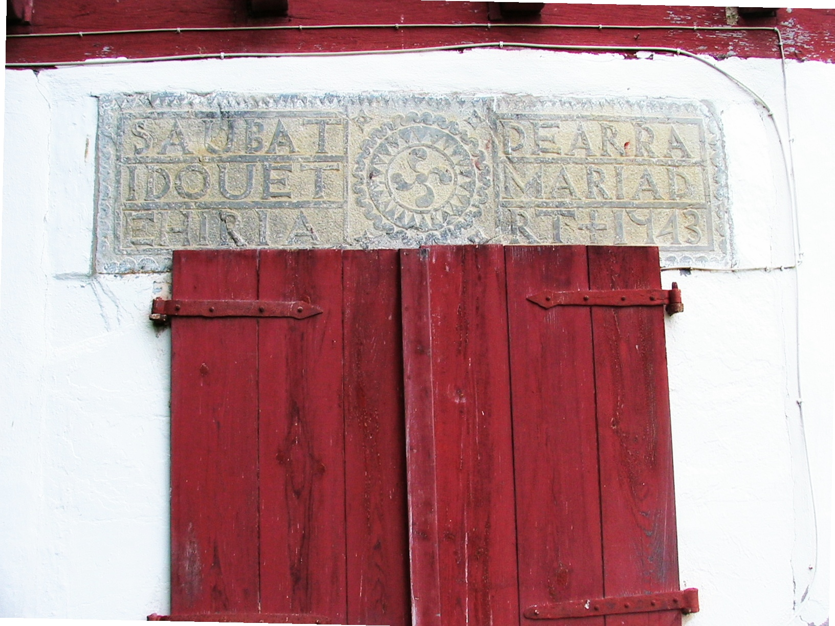 Atalburu in Lower Navarre, French Basque Country: "Saubat de Arraidou et Maria de Hiriart, 1743". Former house Mendiburua in Ayherre.